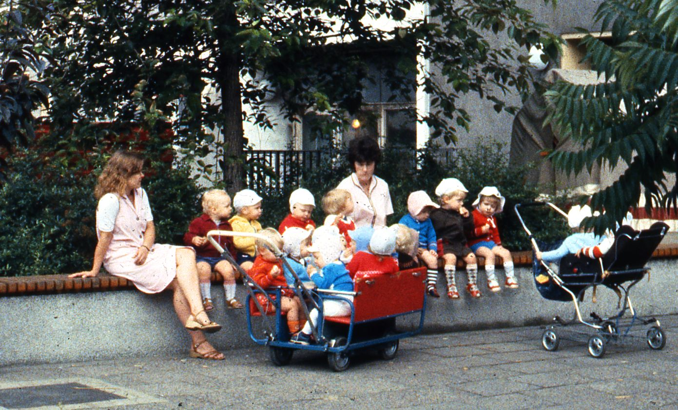 East Berlin childminders, with children and strollers, seated on a wall, 1984.